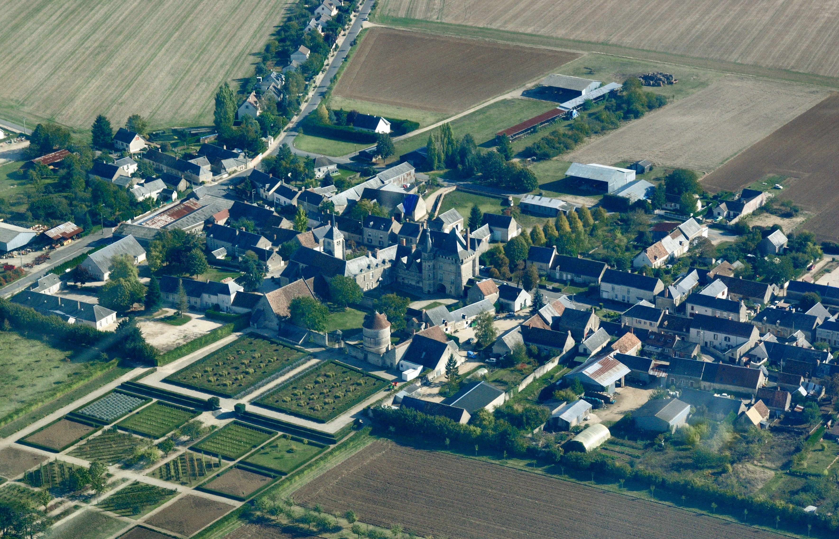 Aerial view of the castle of Talcy (Loir-et-Cher department, France) and the surrounding village. Nikon D60 f=55mm f/10 at 1/400s ISO 400. Processed using Nikon ViewNX 1.3.0 and GIMP 2.6.6.